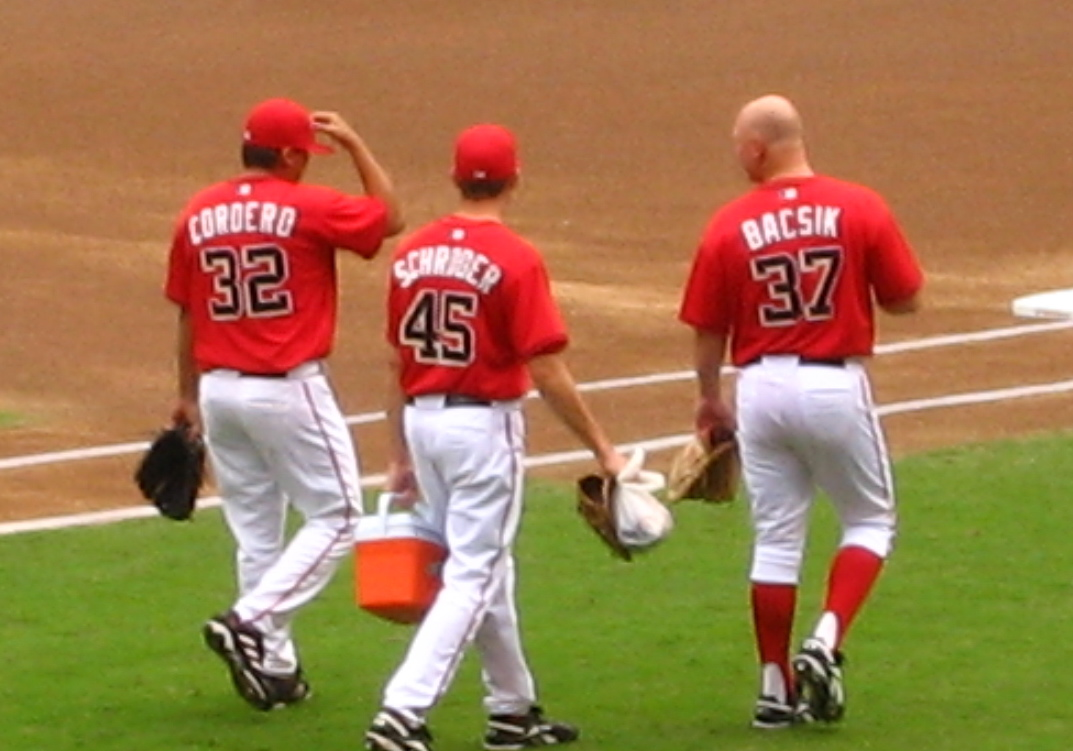 Chad Cordero, Chris Schroder, and Mike Bacsik of the Washington Nationals head to the bullpen prior to a game on August 19, 2007.